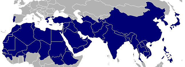 Eastern hemisphere nations with a majority of their land area located between 10 and 40 degrees north of the equator. (PLEASE DO NOT USE UNTIL CORRECTED: Ethiopia should not be colored in; it is not 50% within the region.) See en:10/40 Window.